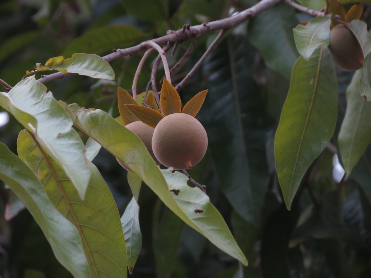 Vatica chinensis - This is a critically endangered tree of the western ghats.